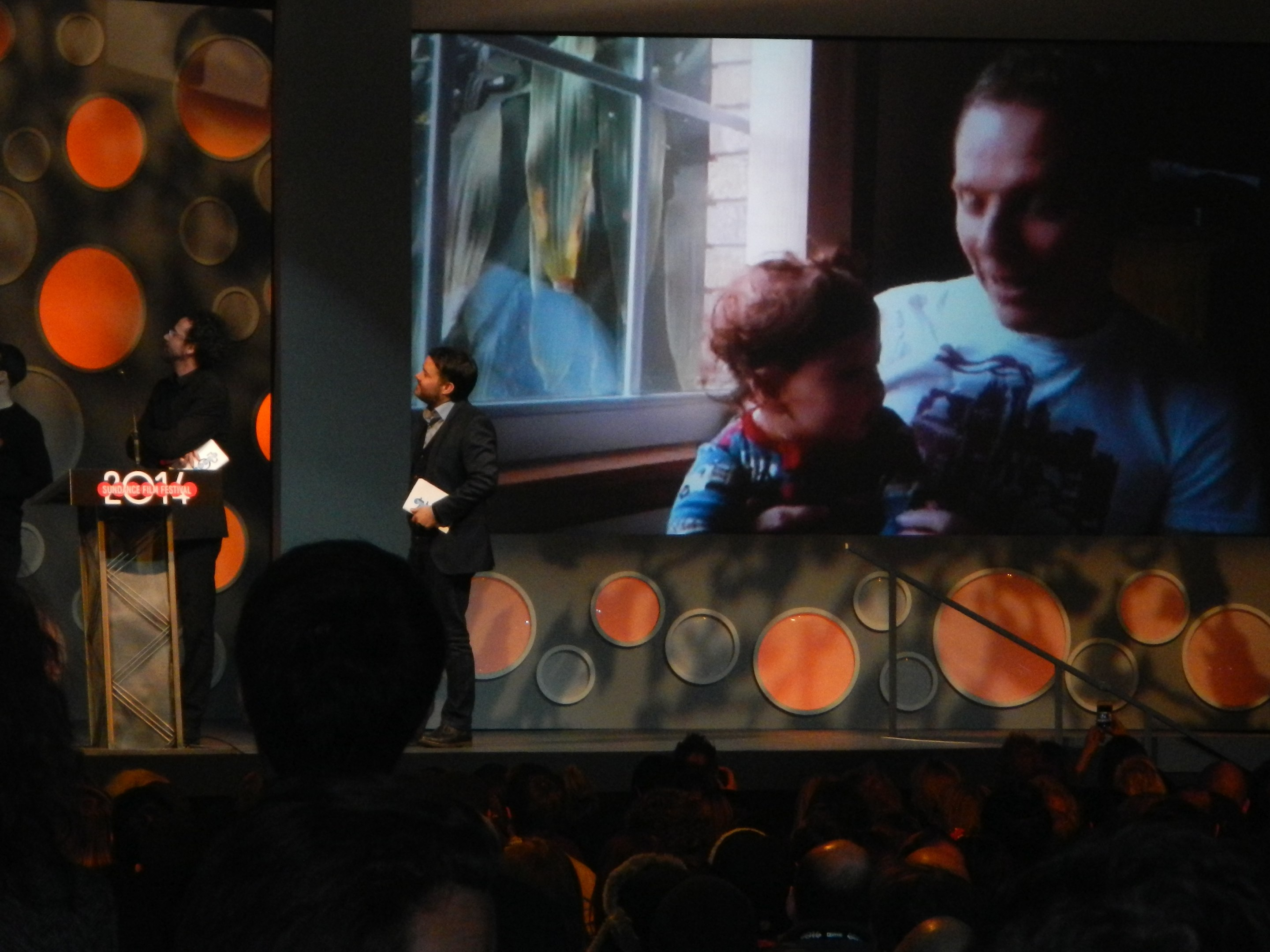 Stuart Murdoch with baby Skyping the Sundance 2014 Awards Ceremony